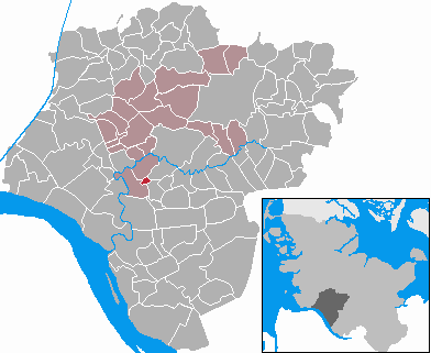 This map shows the area of the municipality Heiligenstedtenerkamp in the Kreis (district) Steinburg, Schleswig-Holstein, Germany.